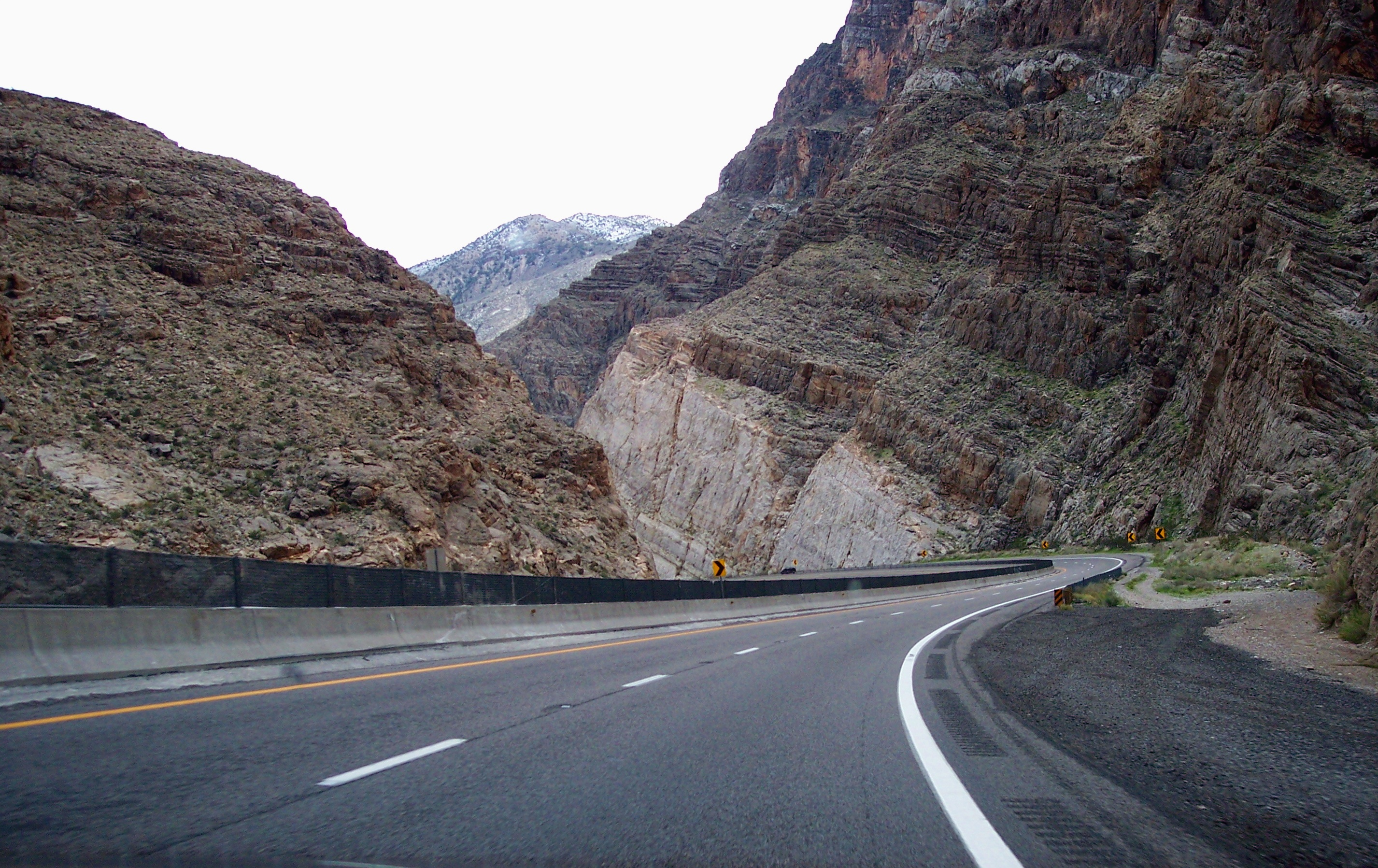 Interstate 15 seen towards north in the Virgin River Gorge, Arizona.